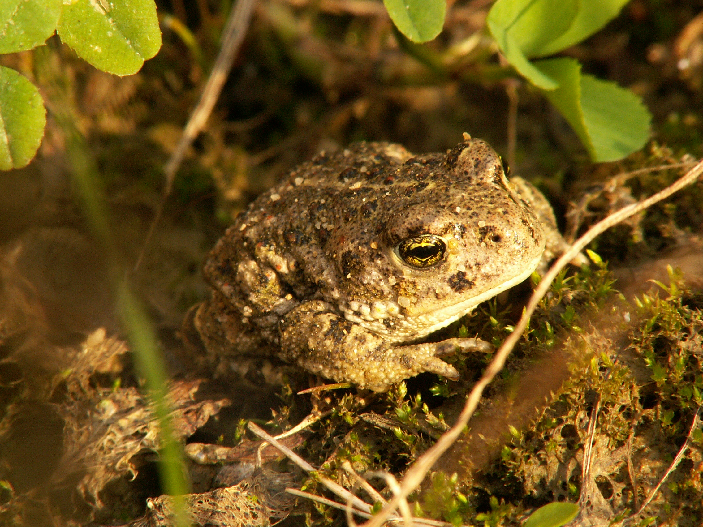 Young specimen much further metamorphosized compared to EpidaleaCalamitaVeryYoung.JPG found in september of Epidalea calamita (Utrecht, The Netherlands)